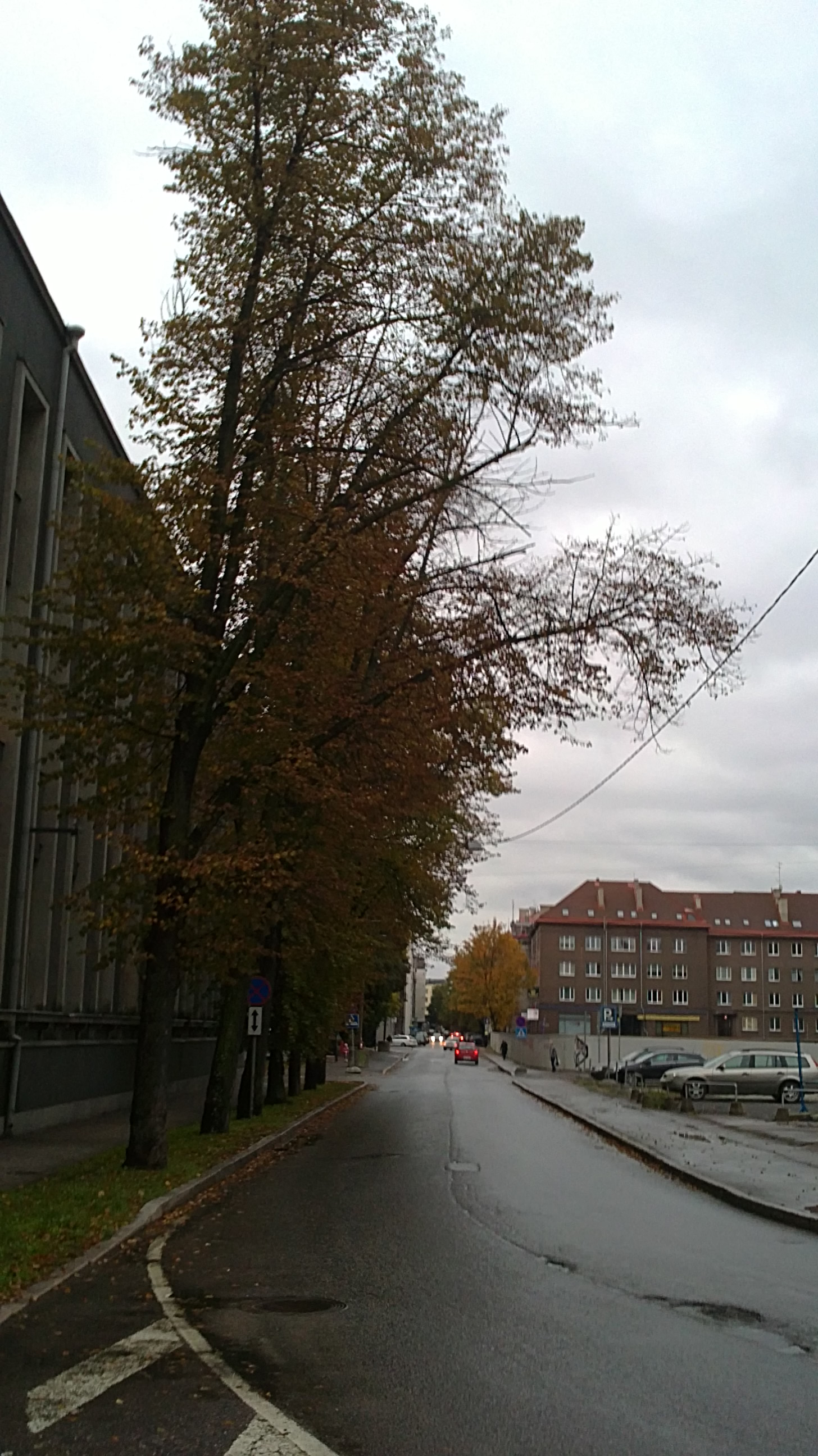 Kentmann str, Tallinn